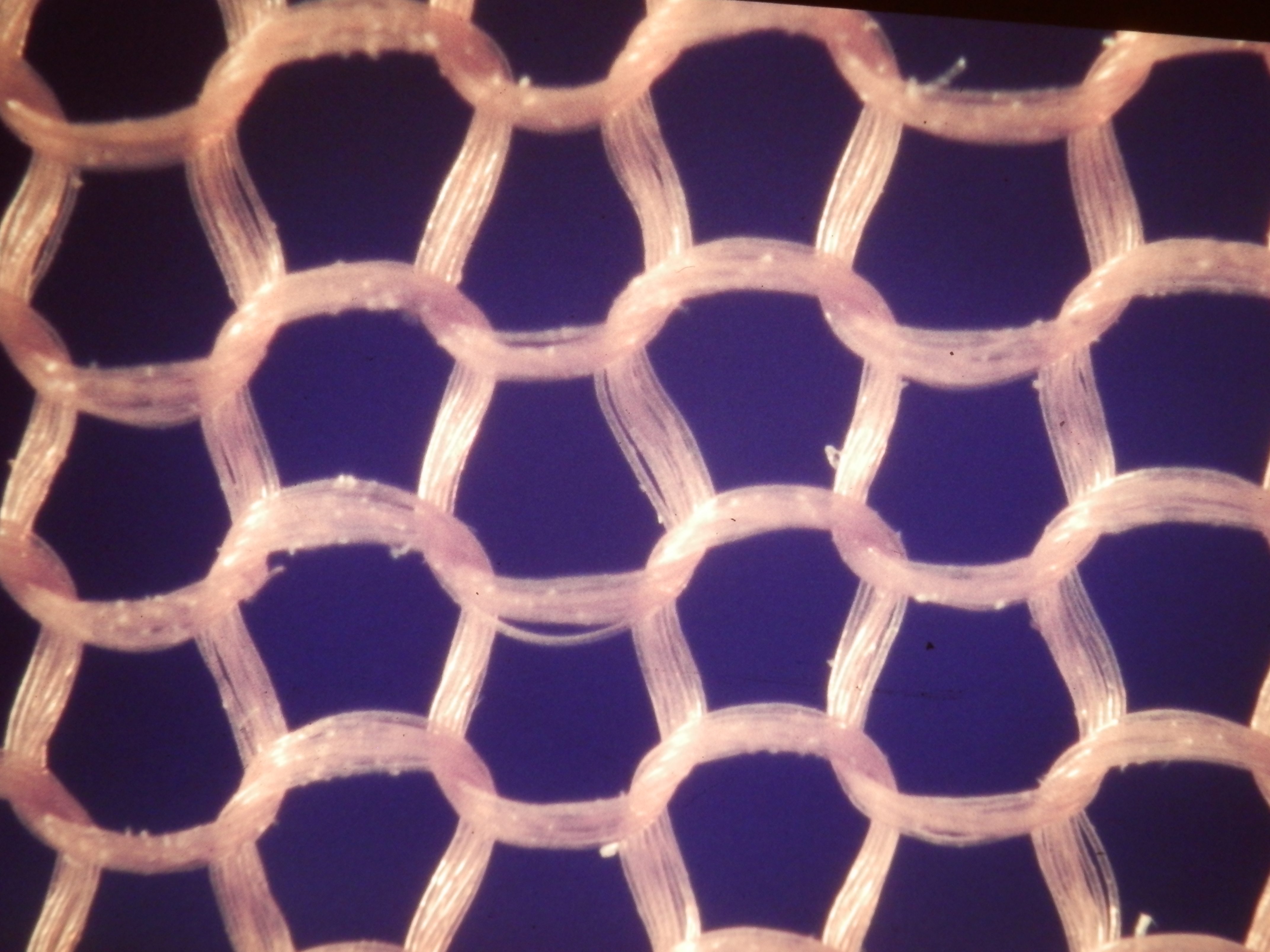 NYLON STOCKING DETAIL